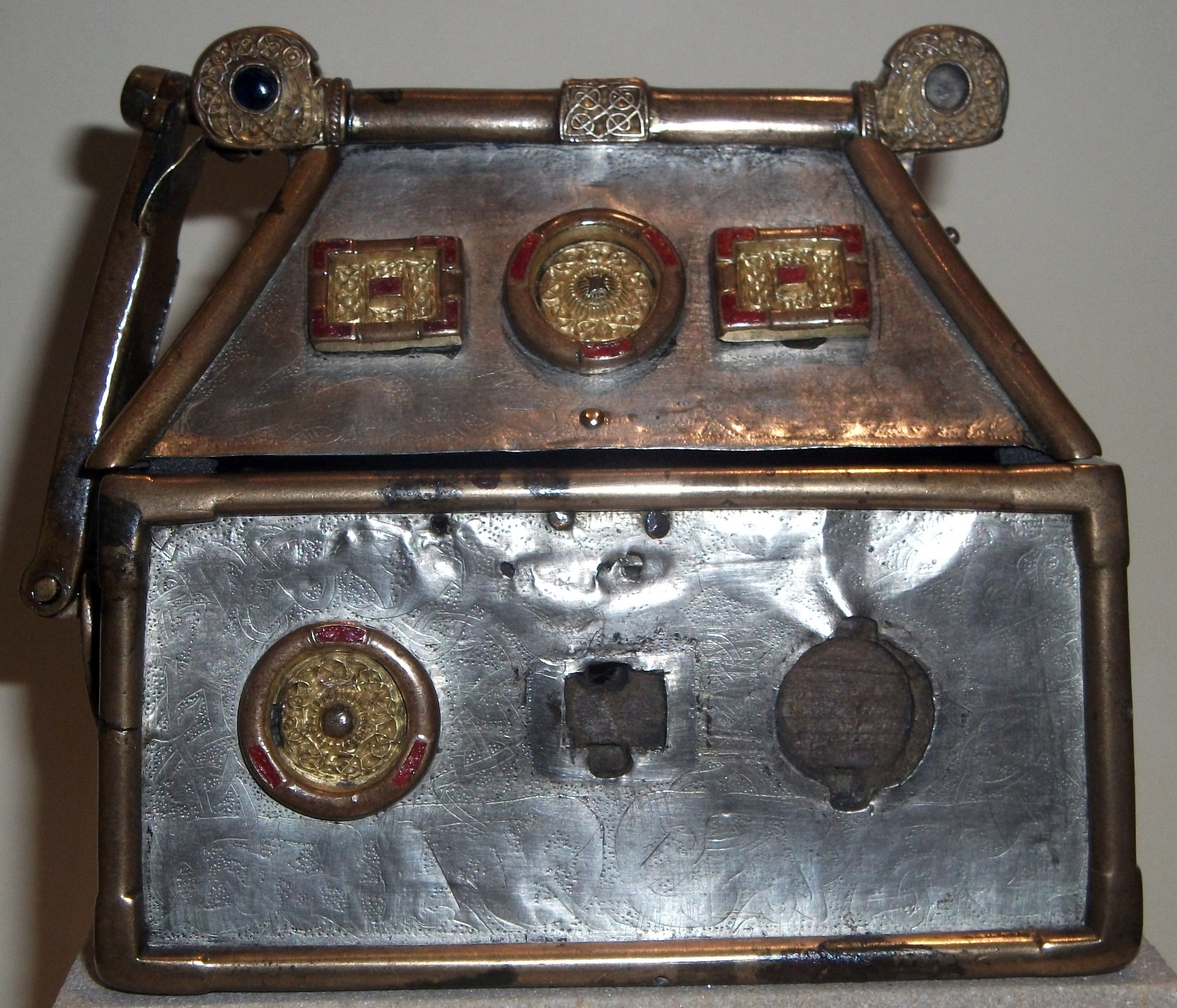 Monymusk Reliquary